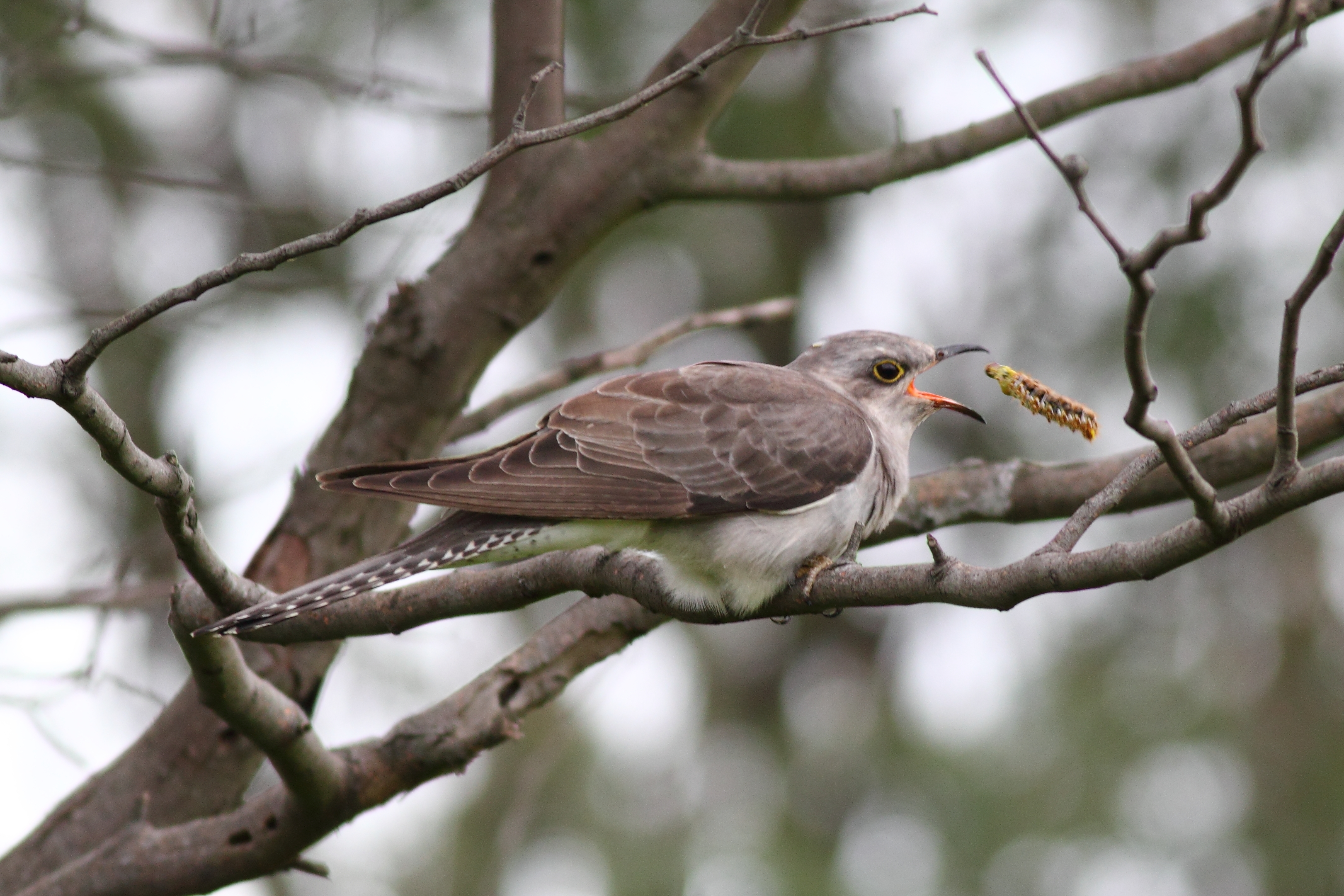 Pallid Cuckoo (Cacomantis pallidus) at Royal Botanic Gardens, Cranbourne, Melbourne